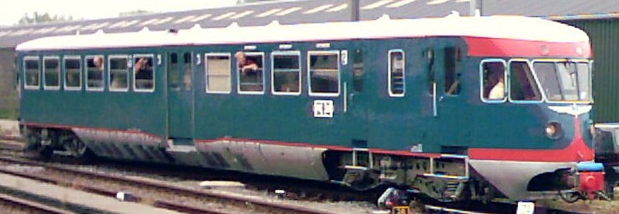 Plan X 41 in Hoorn, 17 september 2006. Eigen foto, PD.